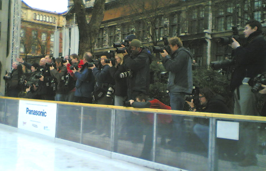 Taken by Frankie Roberto on 11/1/2006 at the Natural History Museum.